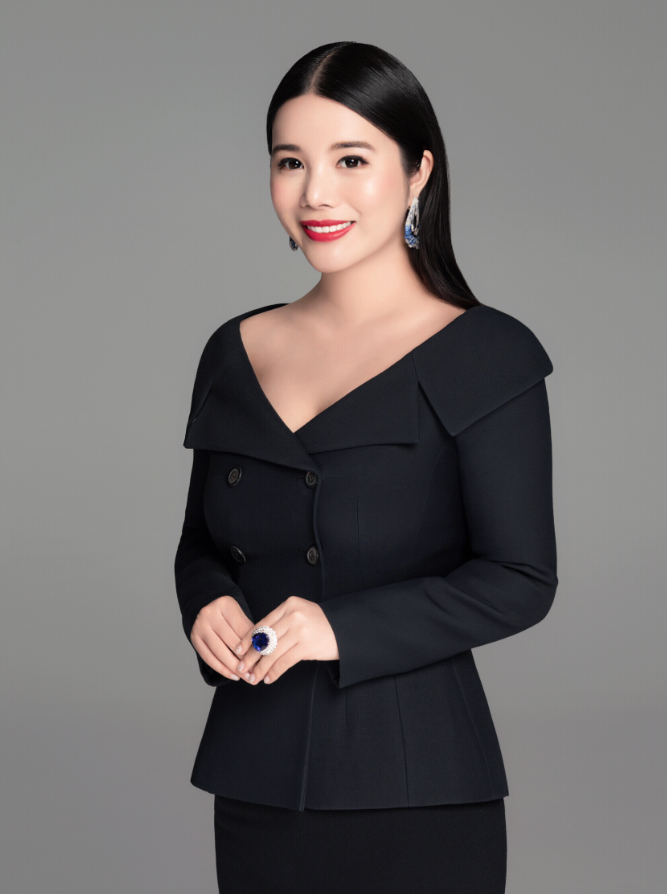 This is a picture of Wendy Yu that I personally took and am donating to Wikipedia.